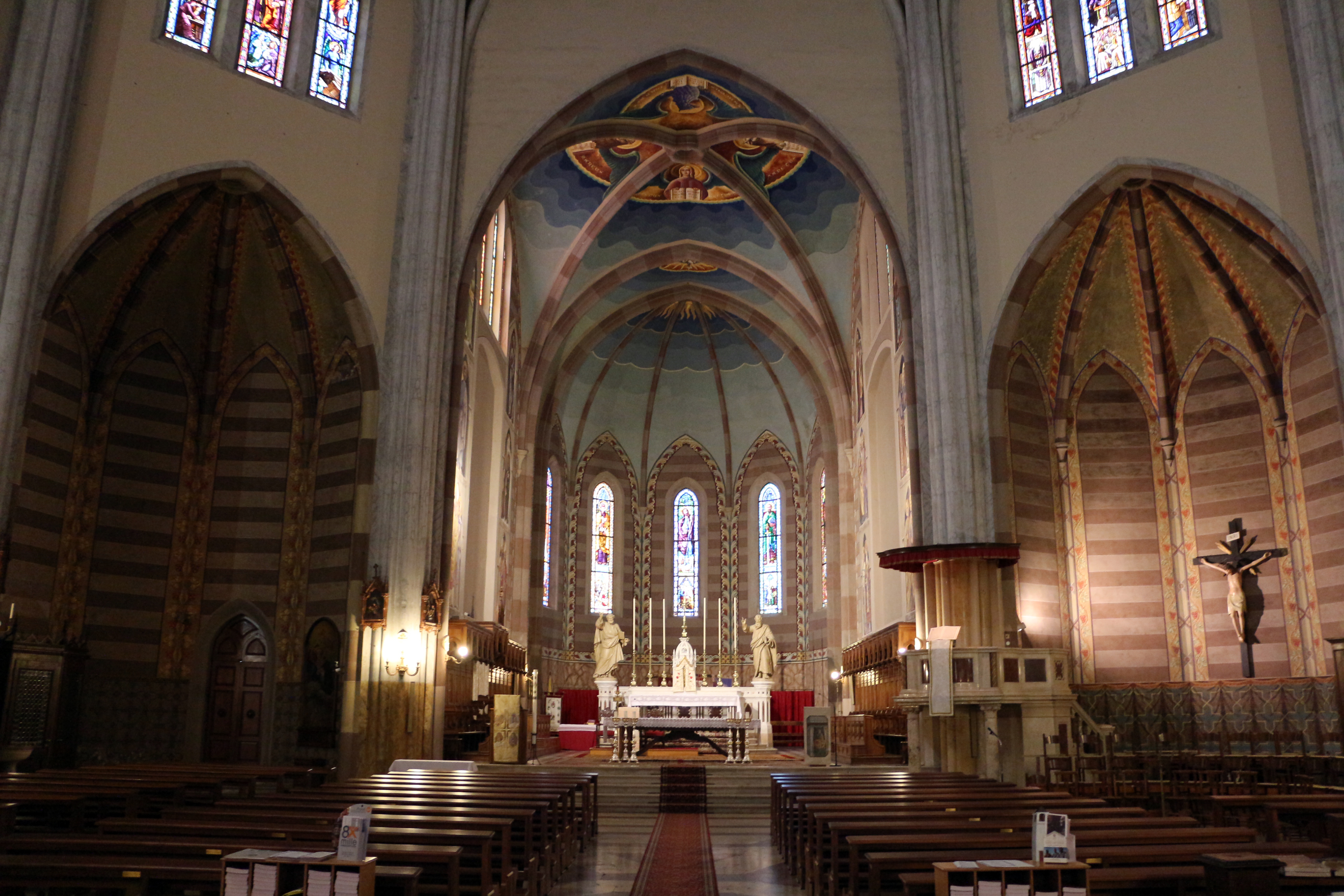 Duomo (Mortegliano)